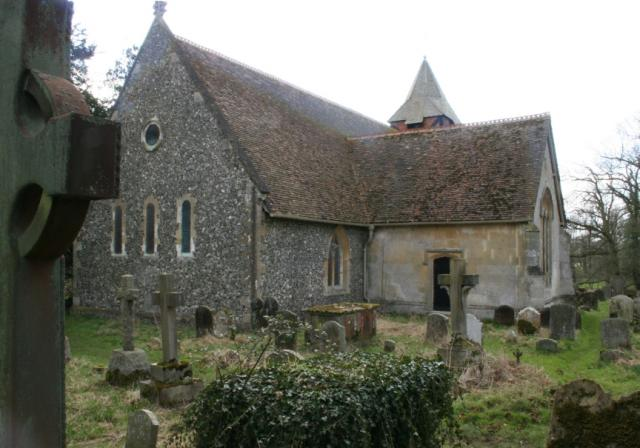 All Saints' parish church, Swallowfield, Berkshire, seen from the northeast, showing the chancel (left) and 19th-century north transept (right)